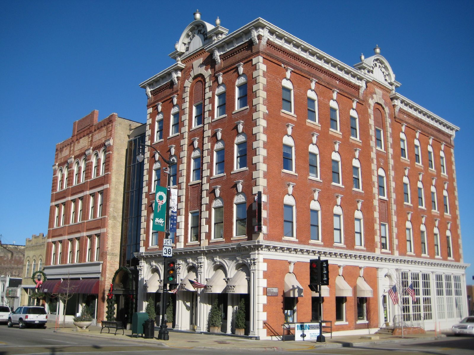 The McClurg Building (Racine, Wisconsin) in Racine, Wisconsin, listed on the National Register of Historic Places.